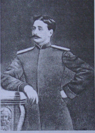 Azerbaijani commander and poet Mehdigulu khan Vafa (1855-1900), son of Hurshidbanu Natavan, grandson of Mehdigulu khan-khan of Karabakh.